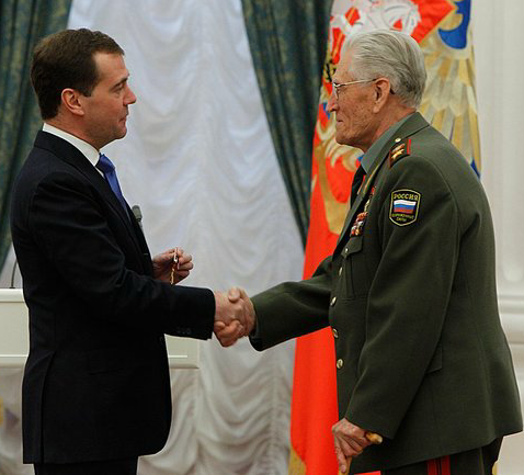 Marshal Petrov V.I.